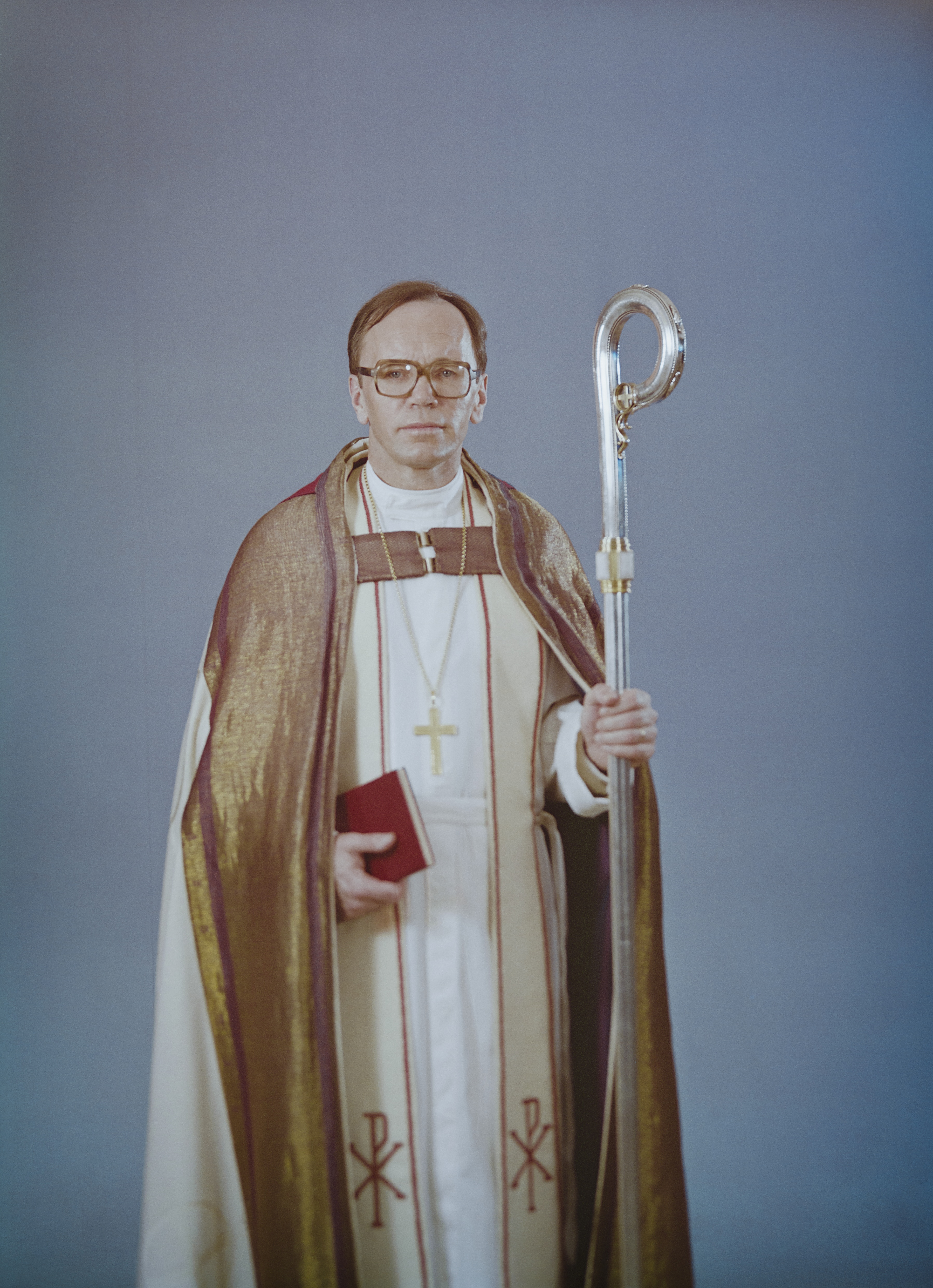 Photograph of Dr. John Vikström, Archbishop of the Lutheran Church in Finland.